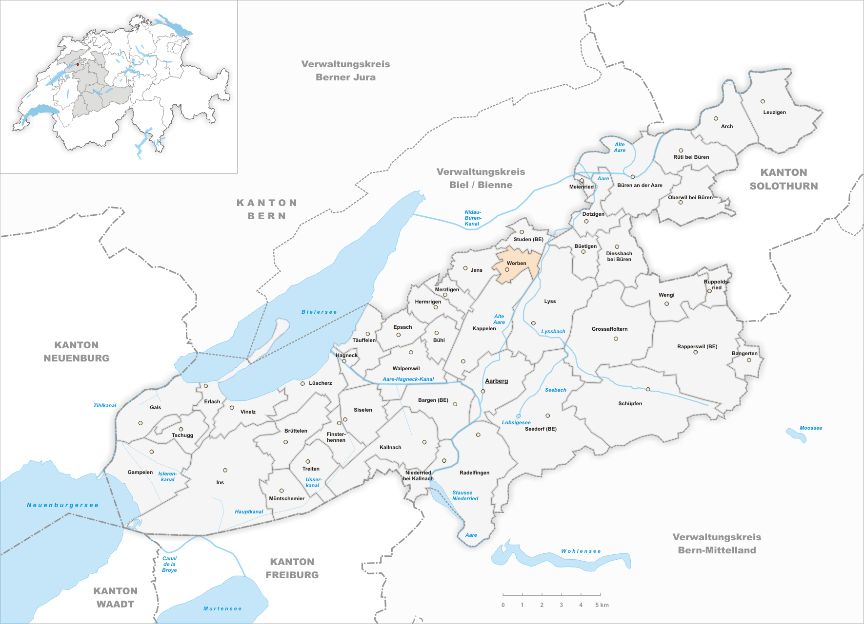 Municipality Worben